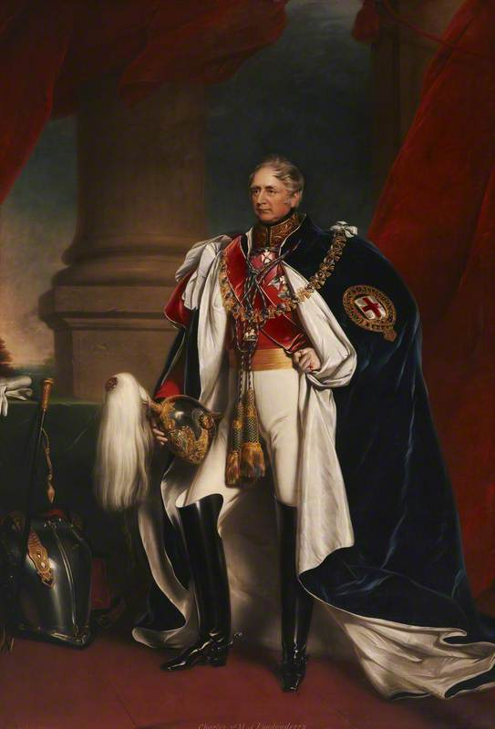 Charles William Stewart 3rd Marquess of Londonderry